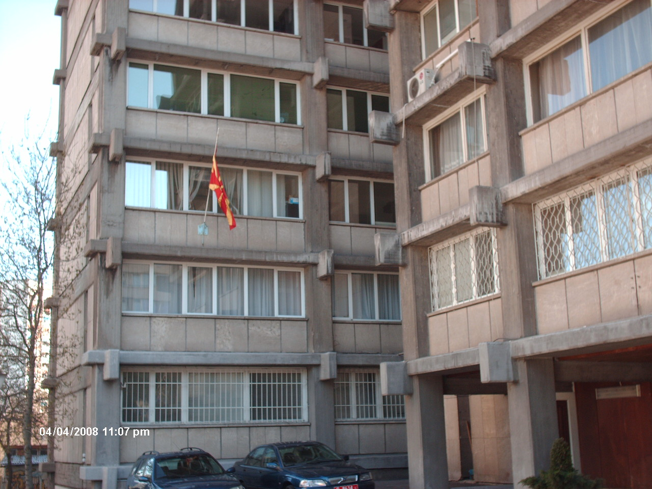 Embassy of the Republic of Macedonia in Sofia, Bulgaria